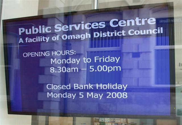 Public Services Centre screen. A scrolling screen reveals the services that are available to the general public.